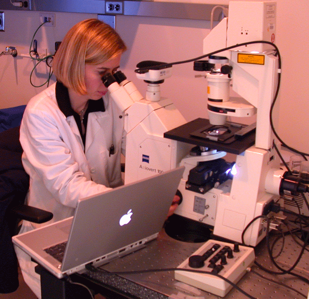 Charlotte Sumner (Neurogenetics Branch/NINDS) uses the Axiovert microscope and Micropublisher camera to capture images of brainstem sections from a patient who died of an inherited motoneuron disease.